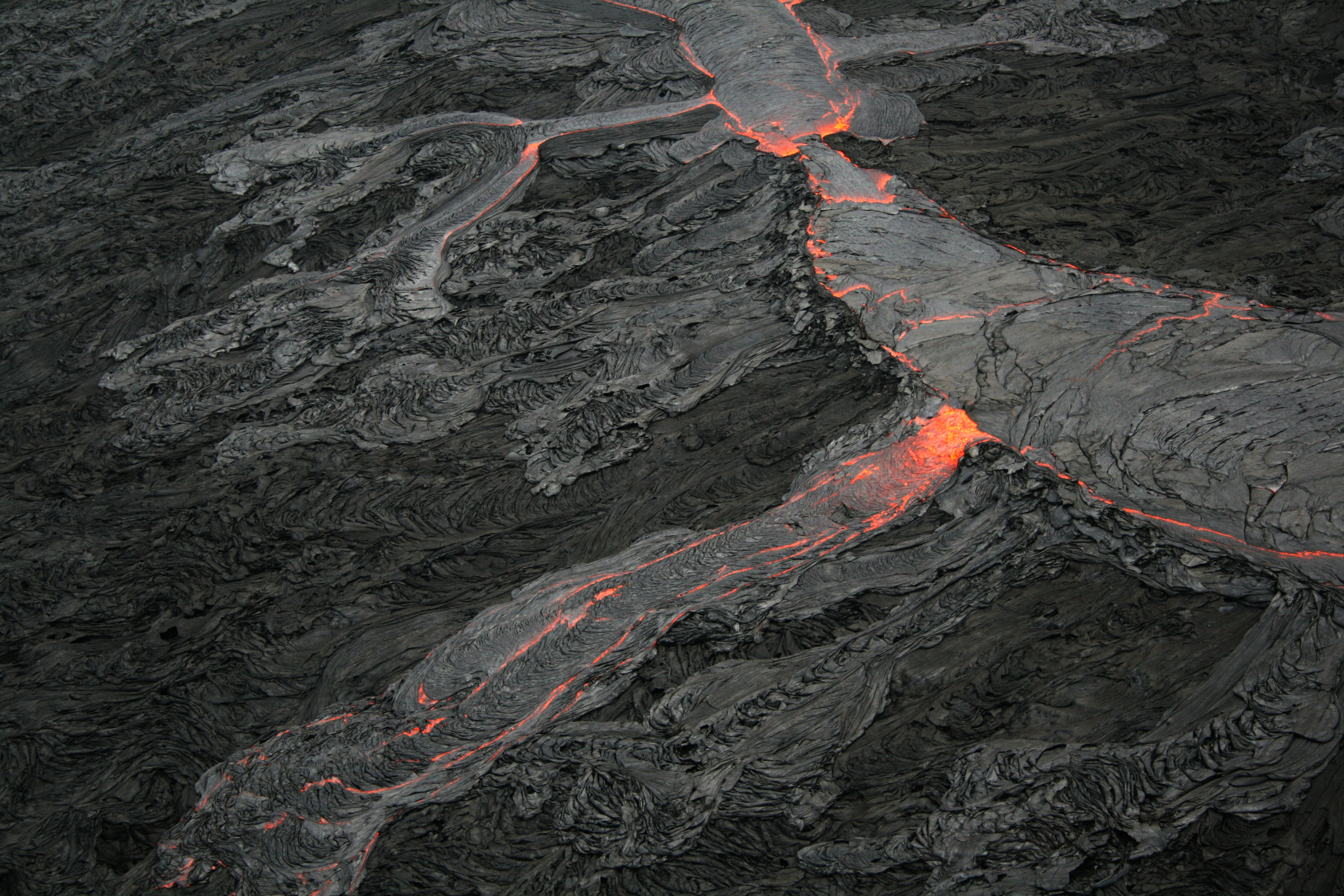 Pāhoehoe Lava flow at The Big Island of Hawai. The picture shows few overflows of a main lava channel. The picture was taken from a helicopter.